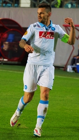 Christian Maggio